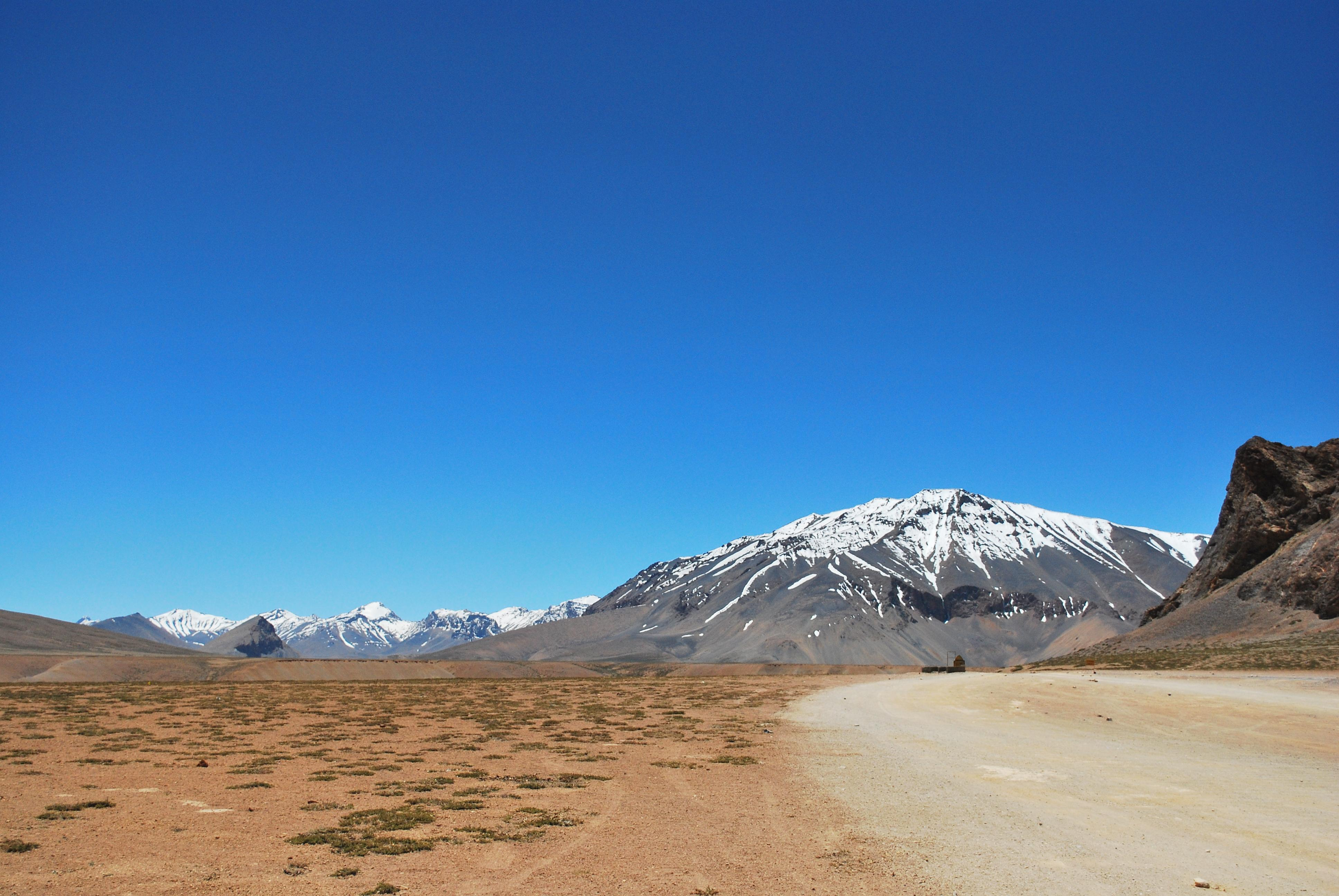 Moore Plains falls in between Leh and Sarchu on Manali-Leh Highway.